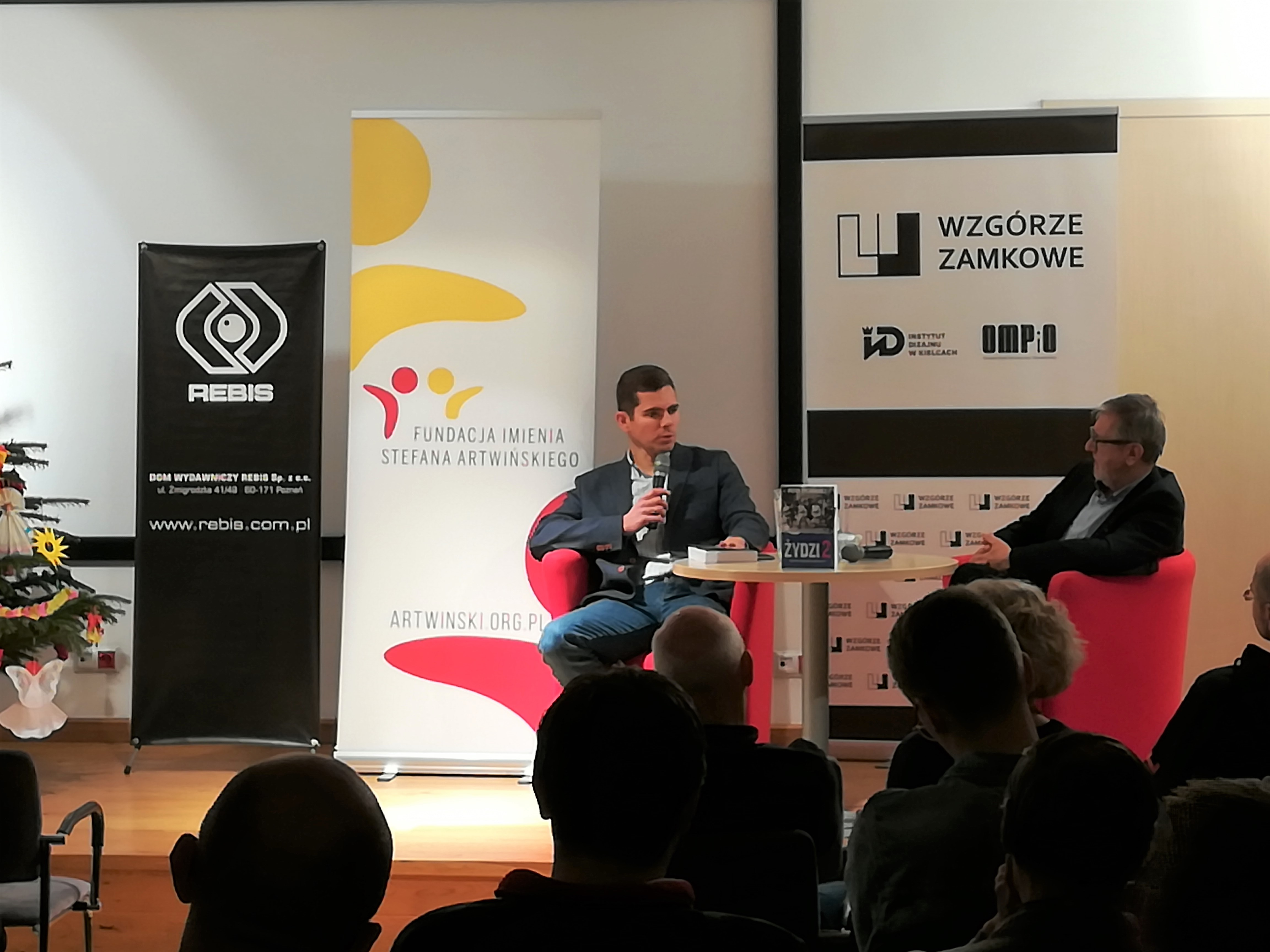 Piotr Zychowicz - meeting in Kielce, Stefan Artwiński Foundation, December 18, 2018